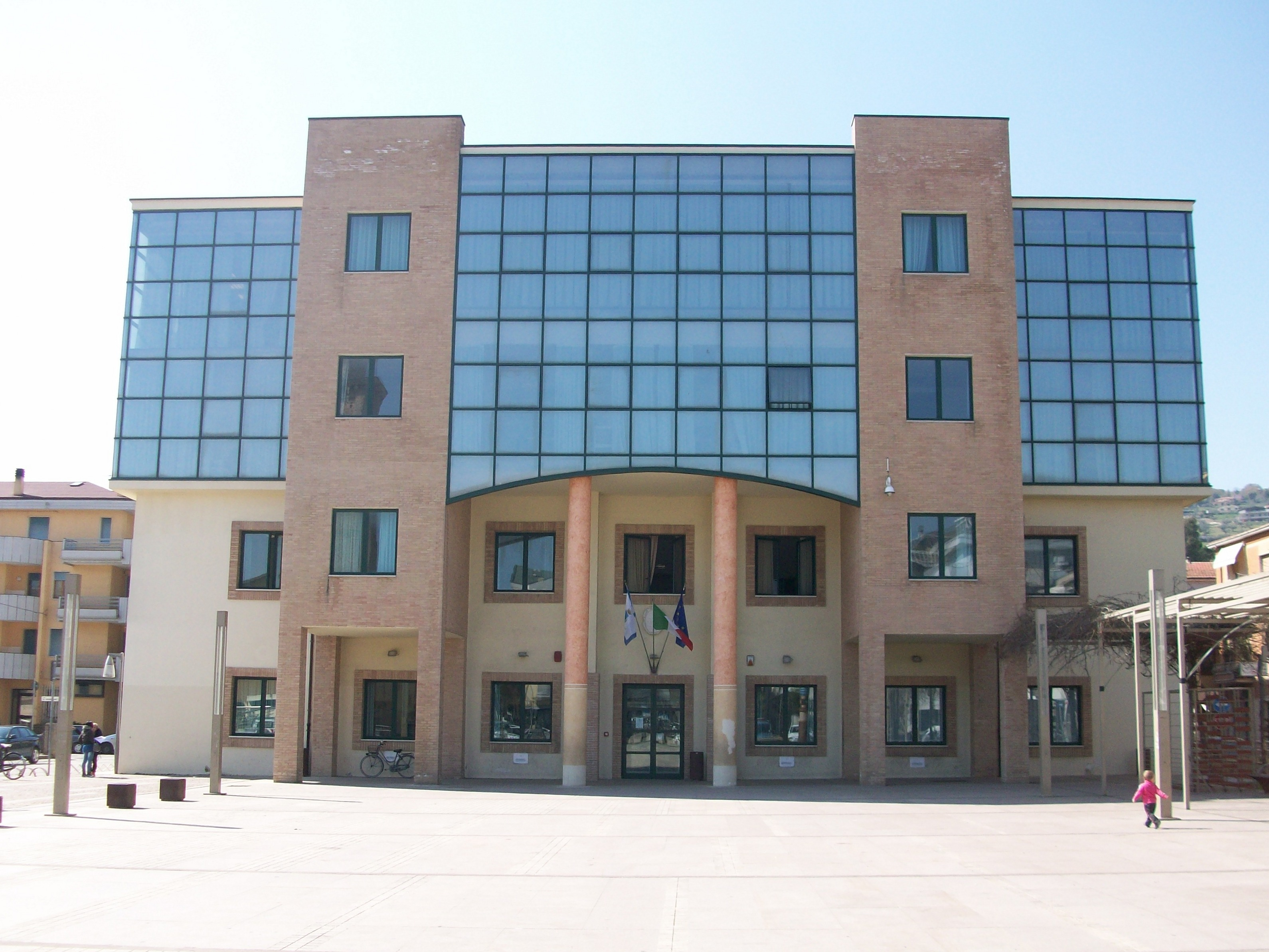 Roseto degli Abruzzi town hall